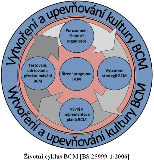 BCM Lifecycle